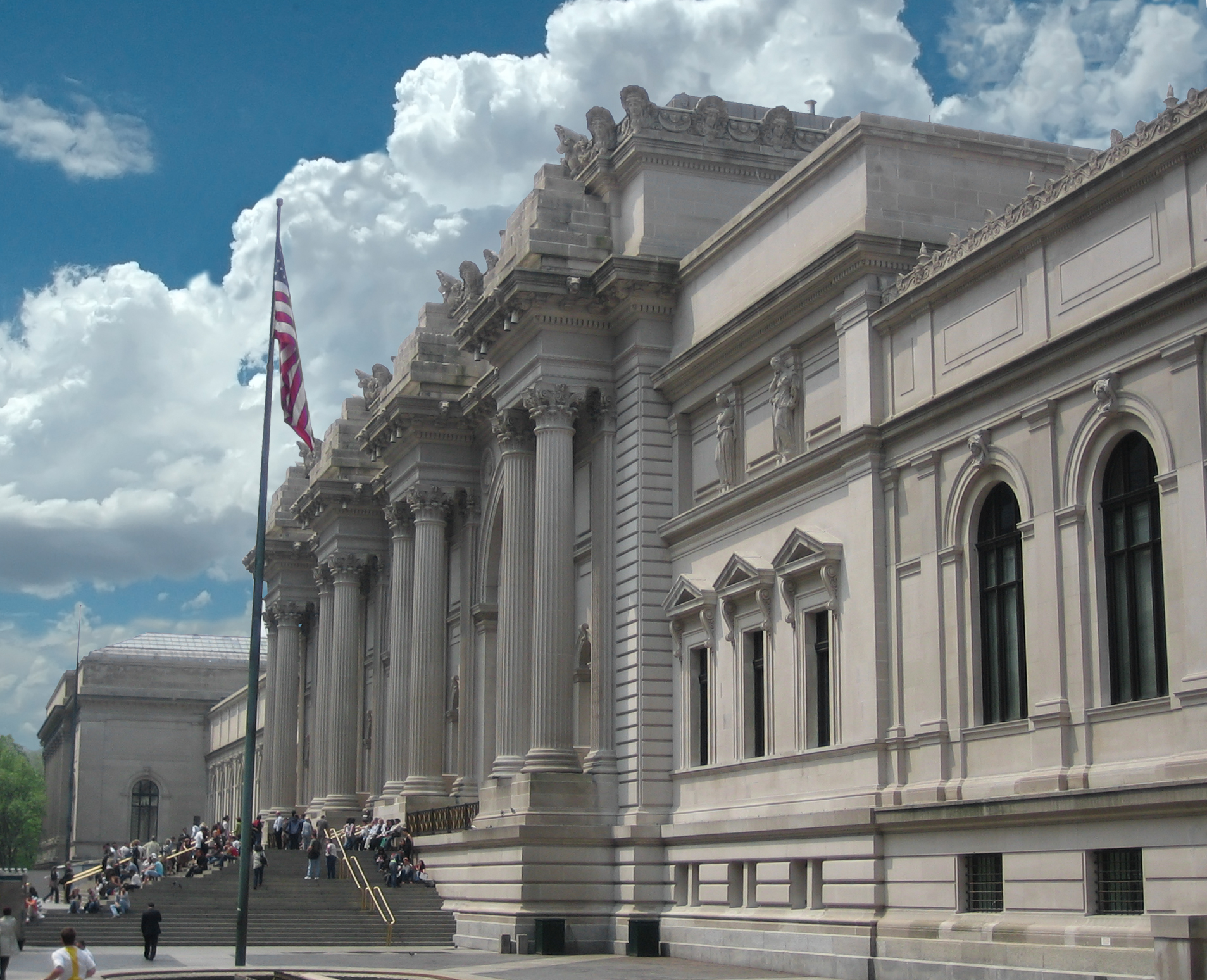 Metropolitan Museum of Art entrance, New York City.